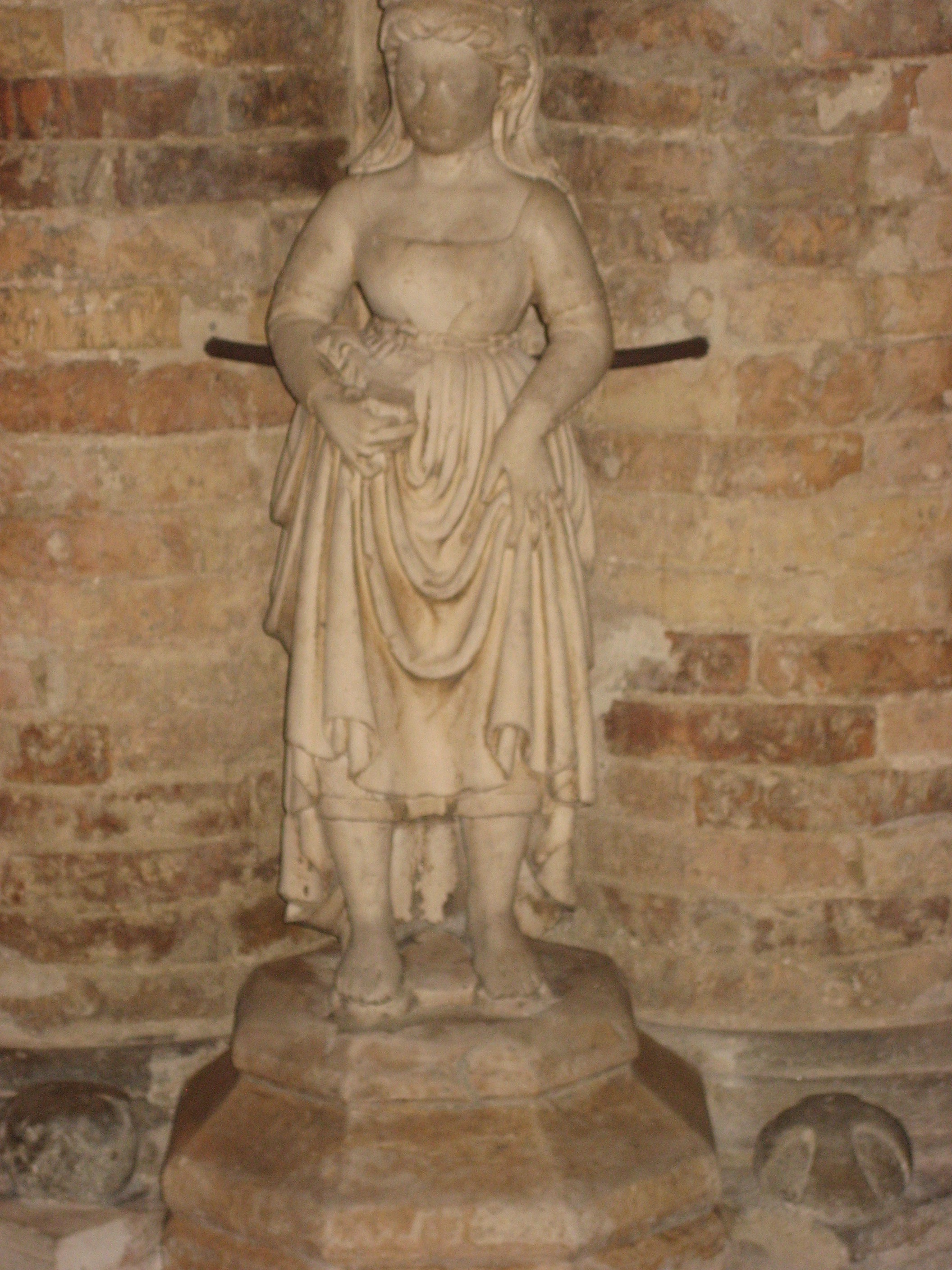 Right font of the Cathedral of Atri, held up by a woman in local customs.